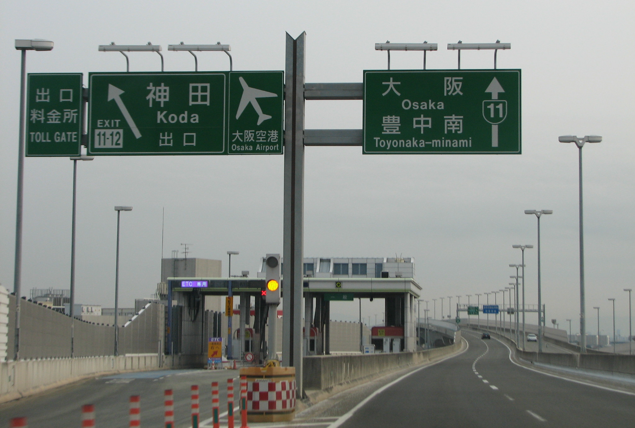 Hanshin Expressway Kōda IC